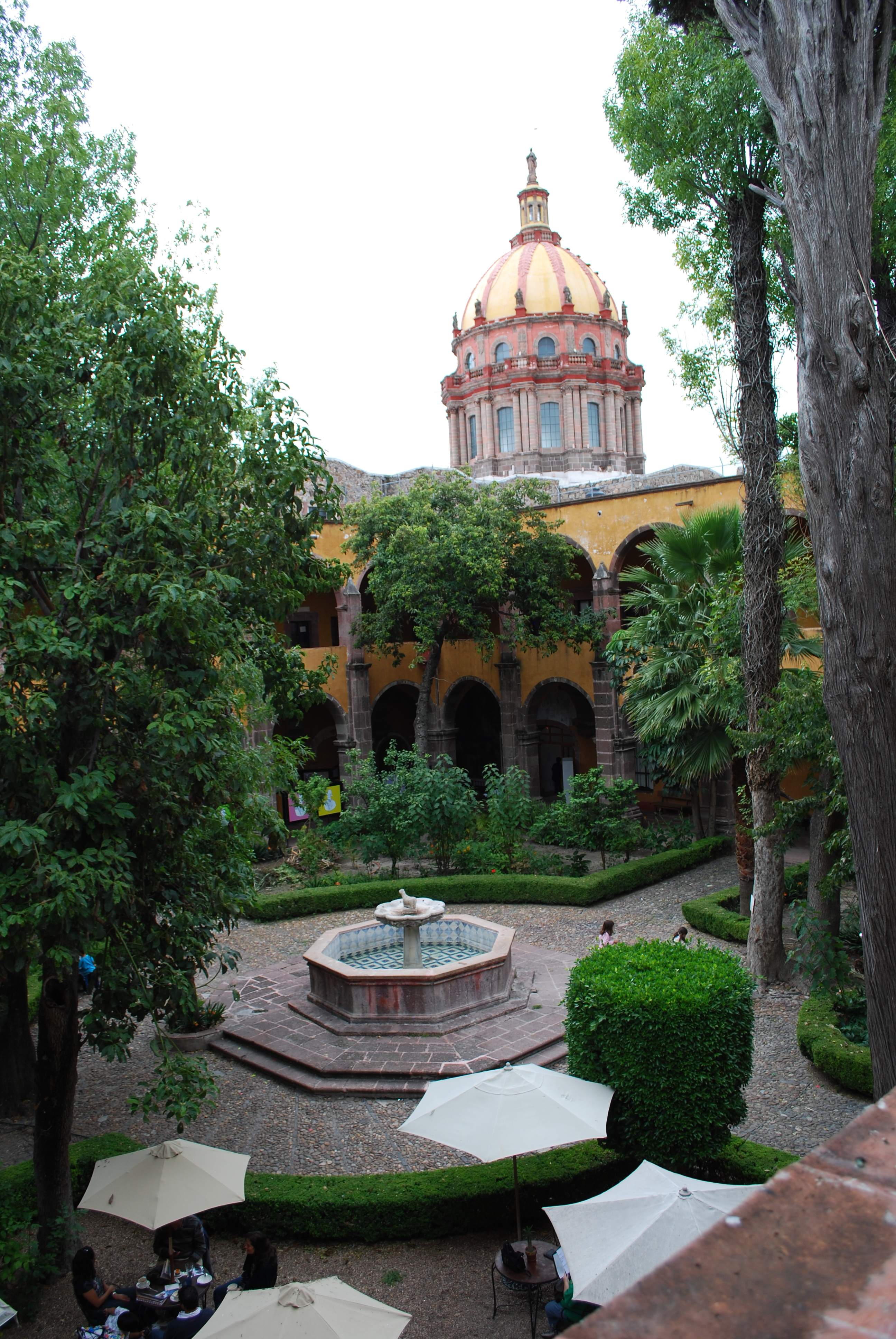 Courtyard of the Centro Cultural Ignacio Ramirez with dome of the Purisima Concepcion Church in the background. In San Miguel Allende, Guanajuato, Mexico